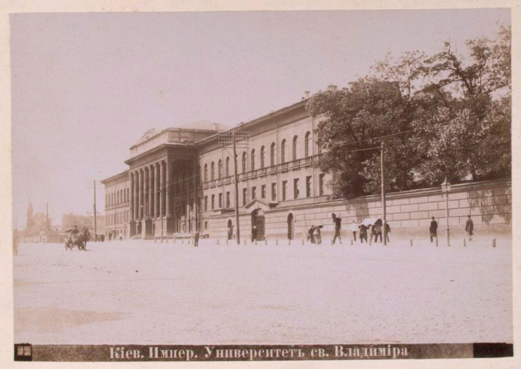 Imperial University of St. Vladimir in Kiev